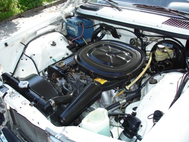 4Cyl Gasoline-Injection Engine of a 1981 Mercedes 230E